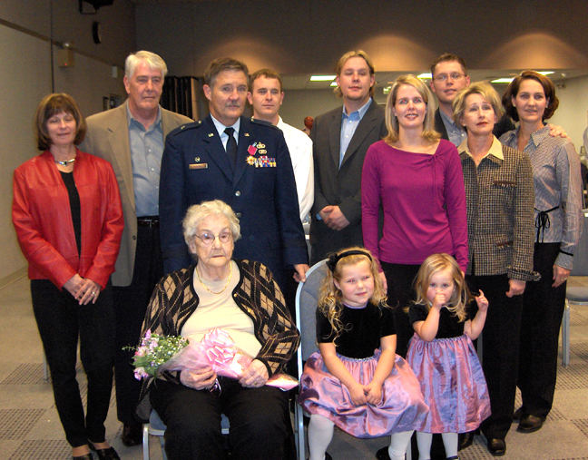 Brigadier General Hugh Broomall and family